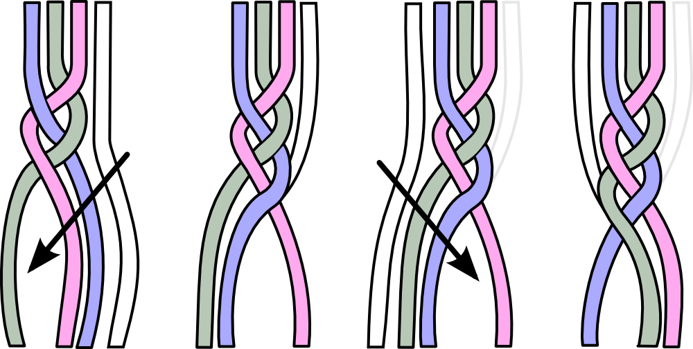 French braid technique, shown in 4 steps